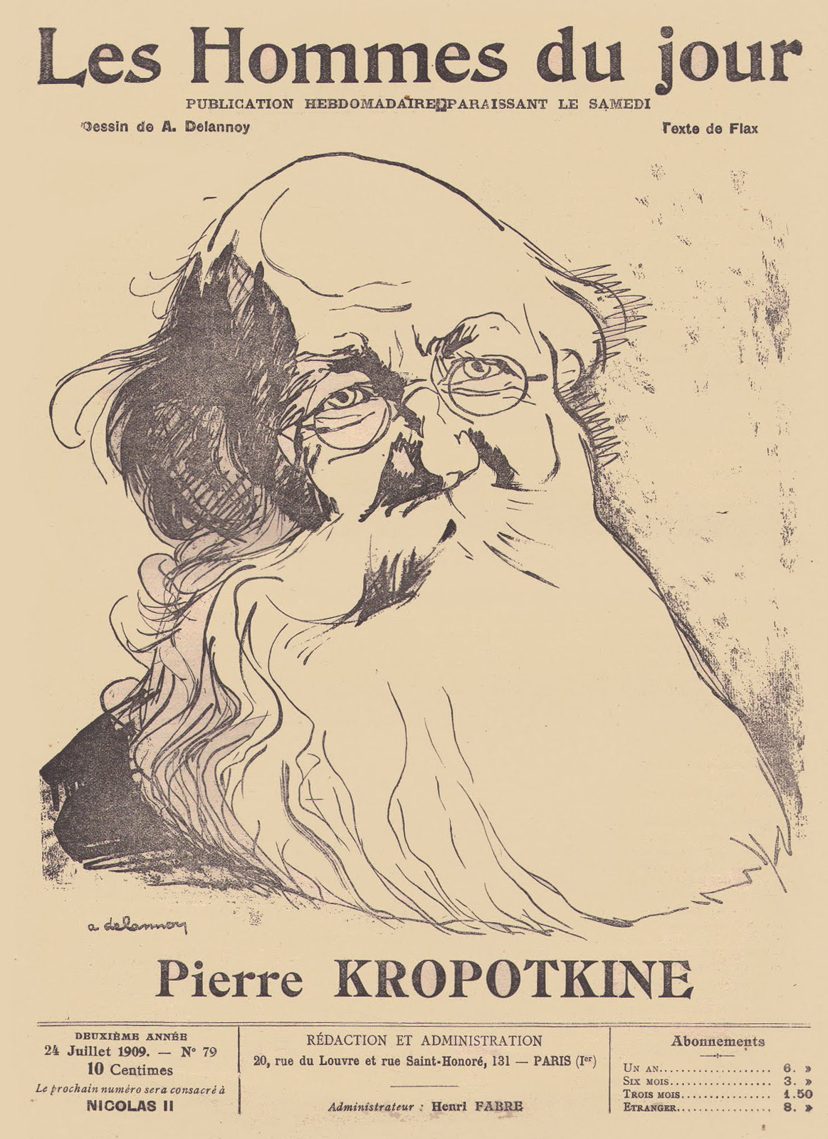 Front cover of an anarchist journal "Hommes du Jour", edited by Victor Méric (1876-1933) and illustrated by Aristide Delannoy (1874-1911).